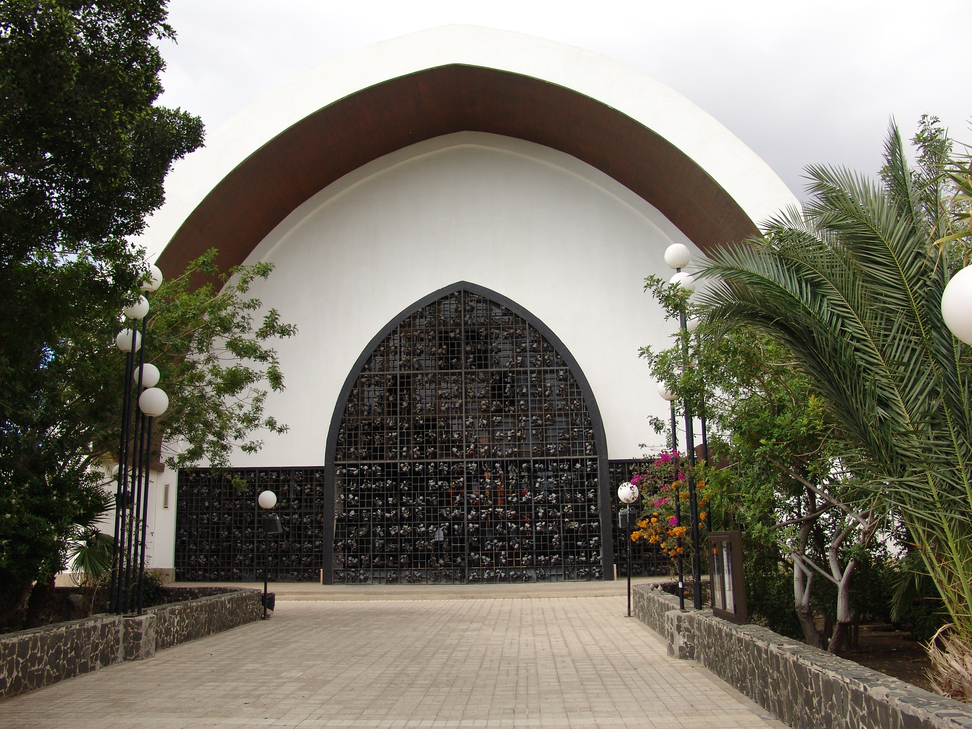 Ecumenical Temple "El Salvador", Playa del Inglés. Gran Canaria, Canary Islands (Spain).